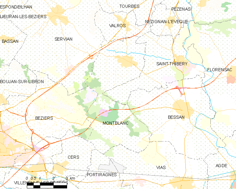 Map commune FR insee code 34166.png - Montblanc (Hérault)